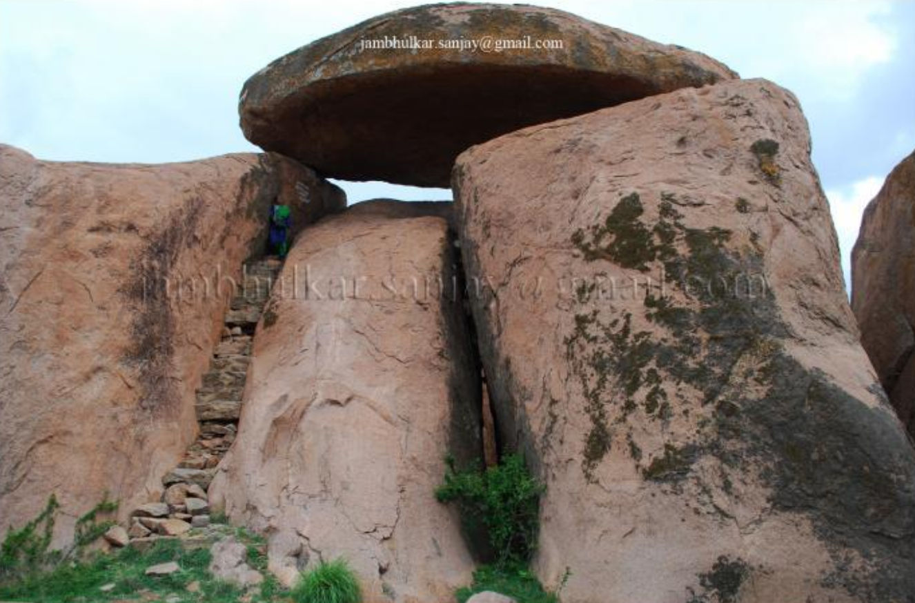 Palkigundu Ashoka Minor Edict